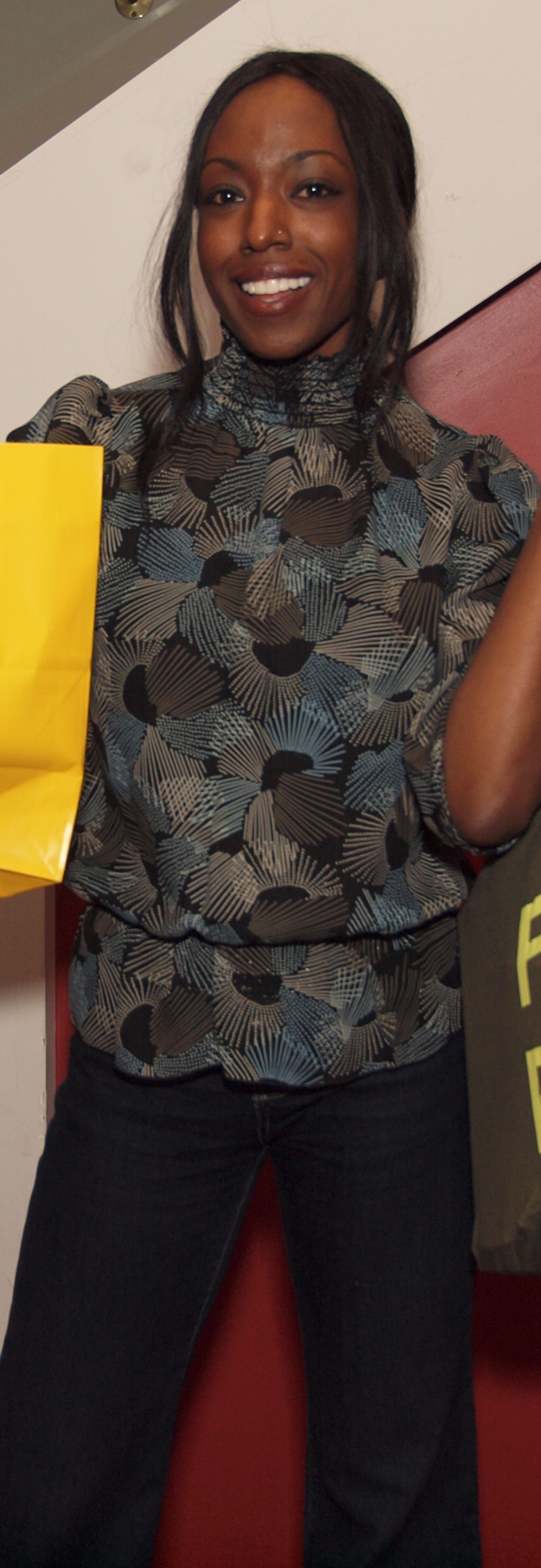 Tré Armstrong at the 2010 Gemini Awards